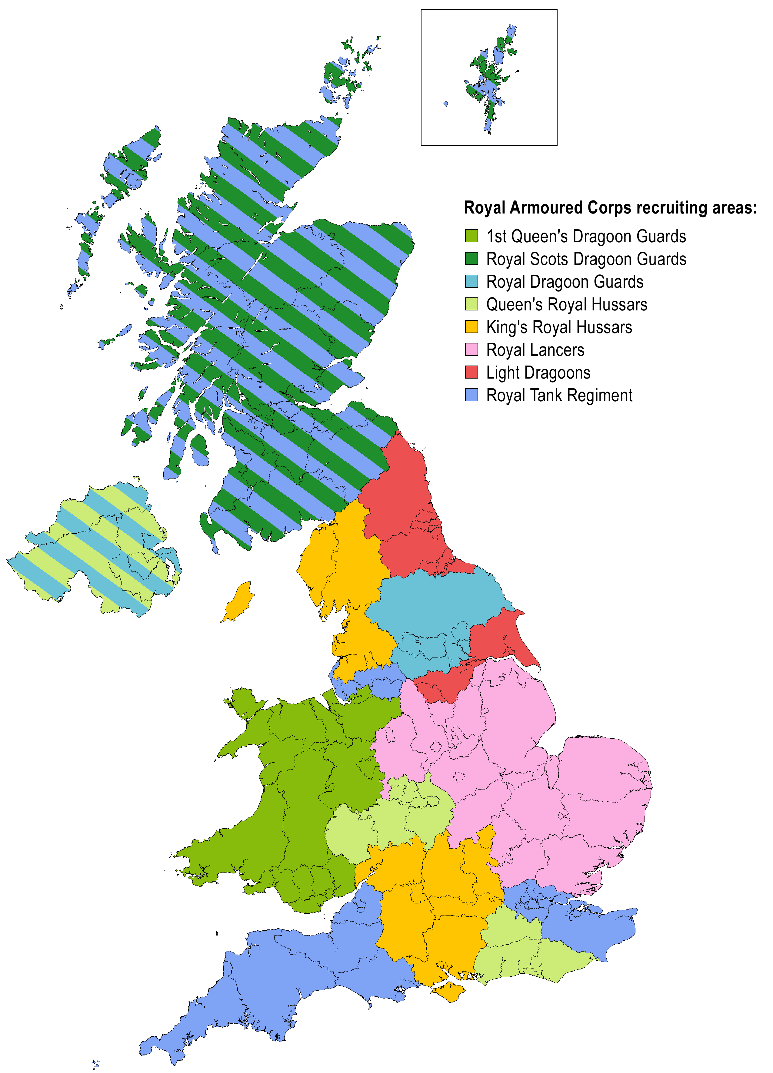 British Army Royal Armoured Corps Regiments recruiting areas